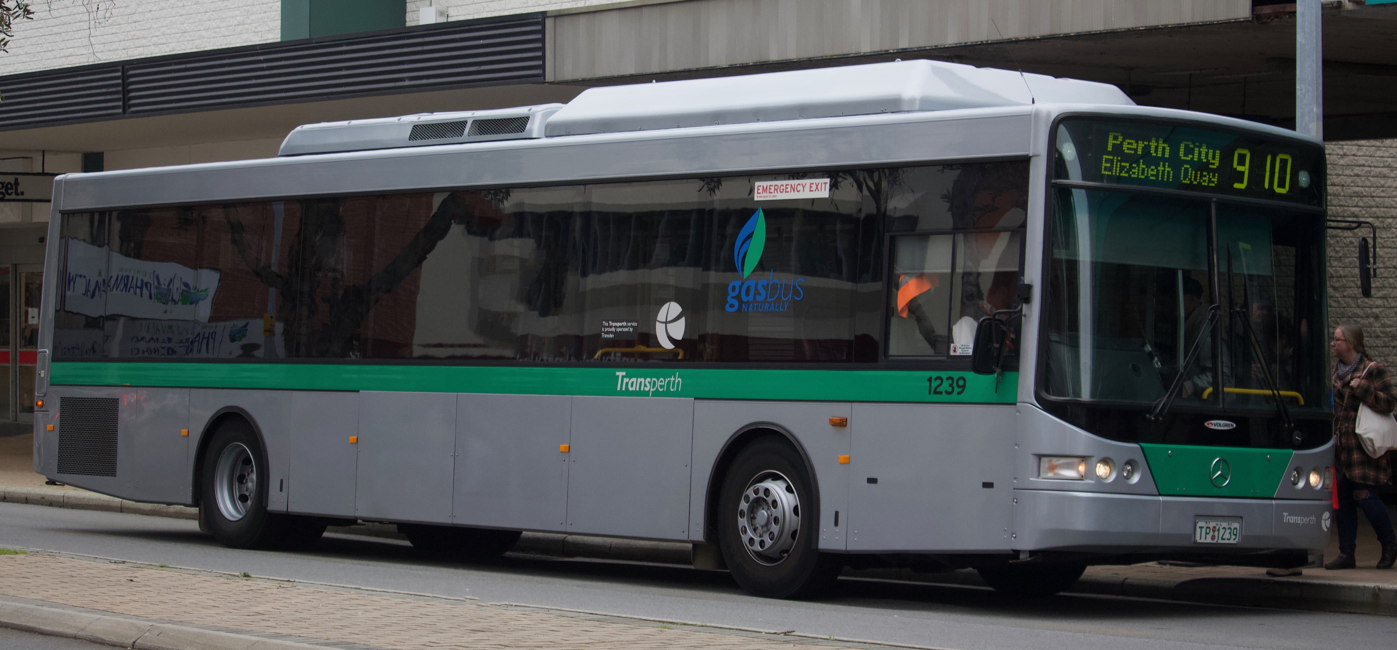 Transperth Volgren CR228L bodied Mercedes-Benz OC 500 LE CNG (12.3m, TP 1239; built: 2004) operating a 910 to Elizabeth Quay.